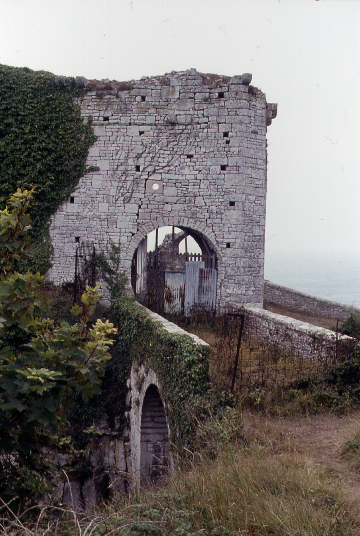 Rufus Castle, Portland, Dorset